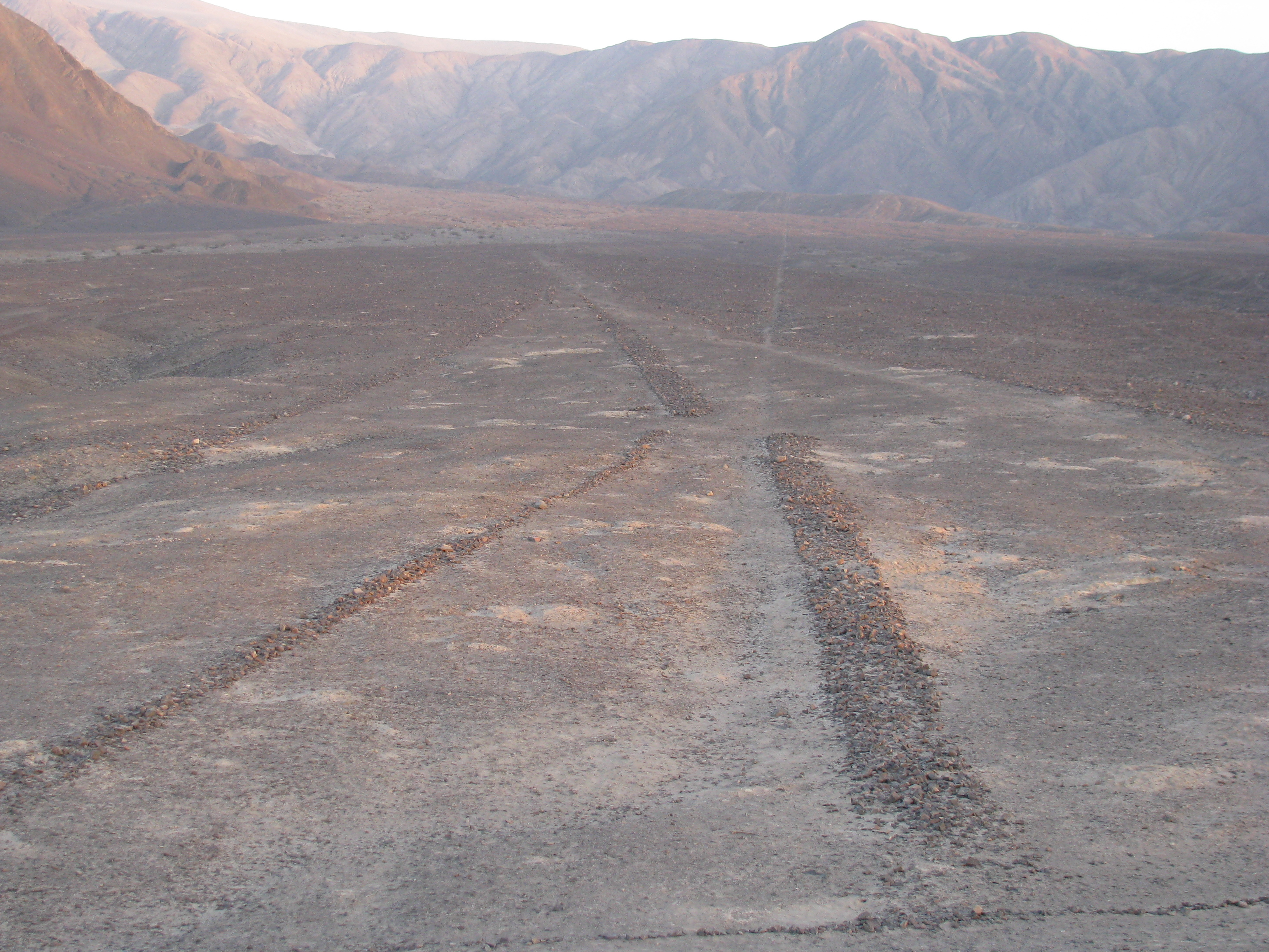 Nazca-lineas